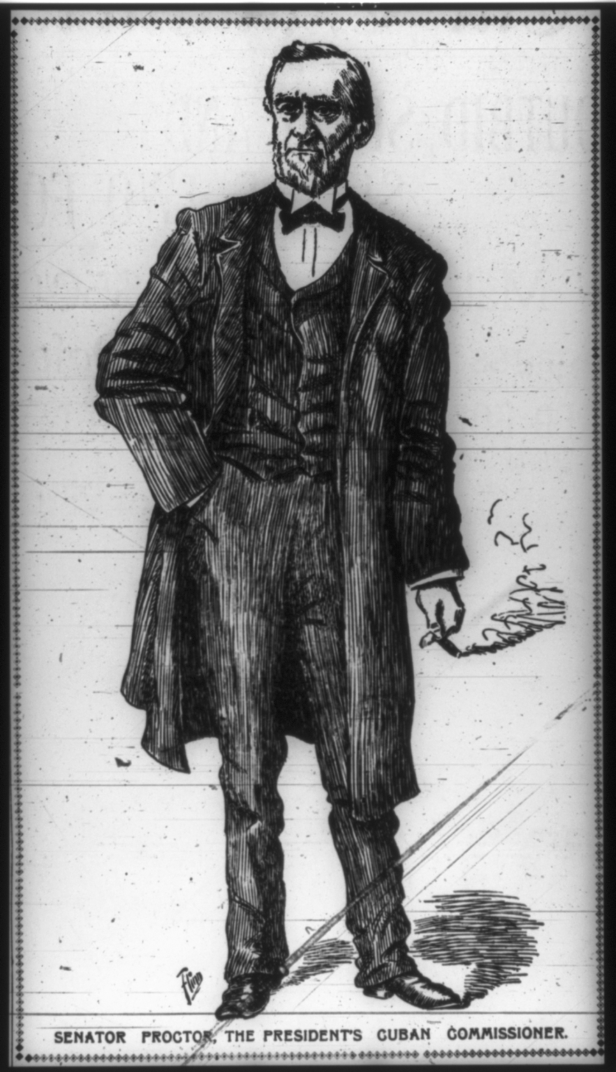 Redfield Proctor, 1831-1908